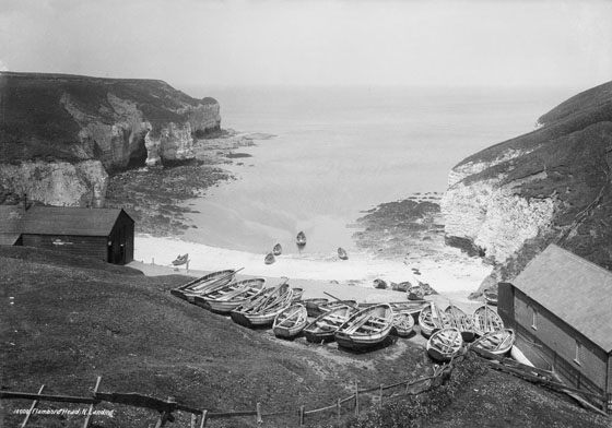 North landing, Flamborough Head, East Riding of Yorkshire, England. Reproduction ID: G2381 Maker: Francis Frith & Co Date: About 1880 Materials: silver halide: gelatine